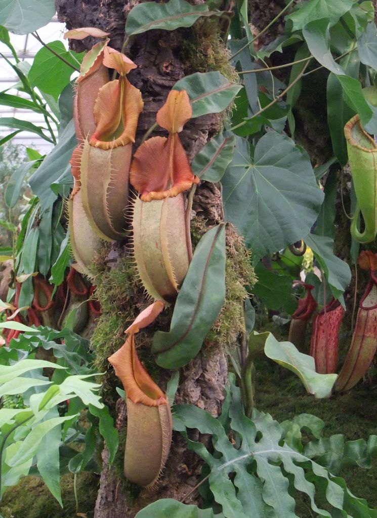 Nepenthes veitchii, 2011 Chelsea Flower Show